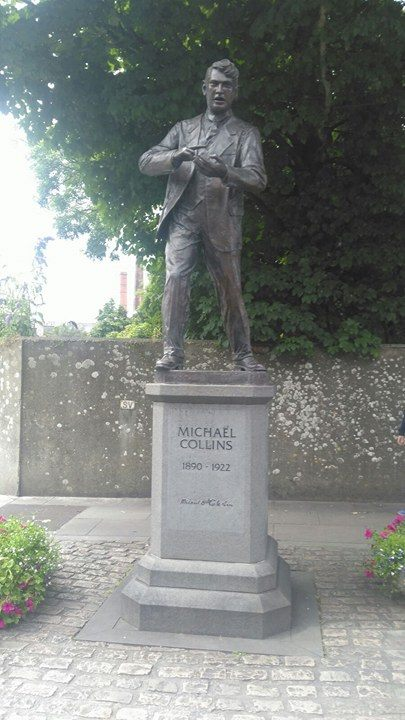 This image depicts a statue of Michael Collins situated in Clonakilty County Cork Ireland, An Irish wartime Politician who fought for Irish independence.He was subsequently shot and killed during the Irish war of independence by a fellow compatriot for his role in signing the Anglo Treaty which divided the Country.